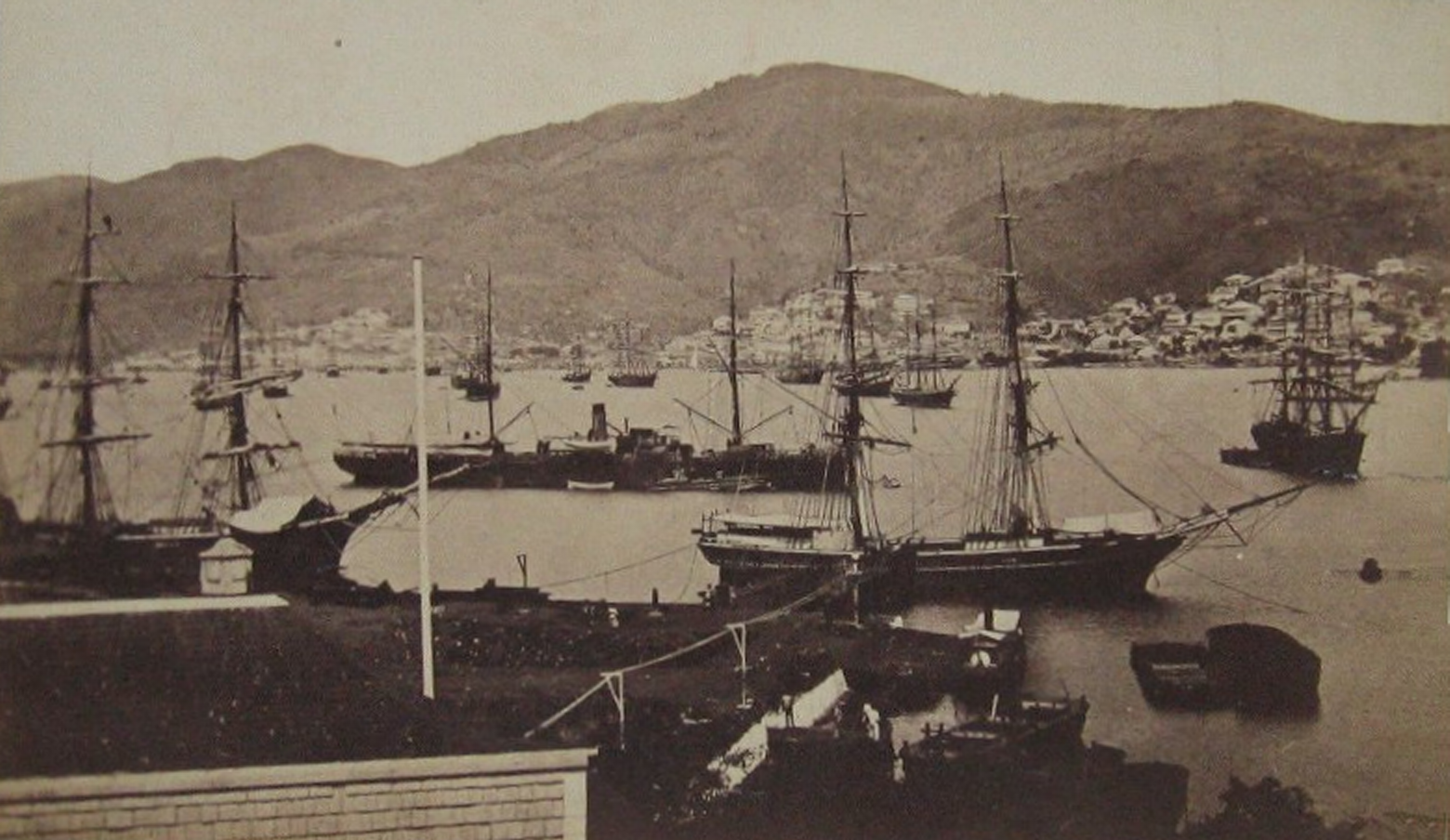 West Indies - Jamaica - Kingston Harbour, ca.1870, size 13*21cm